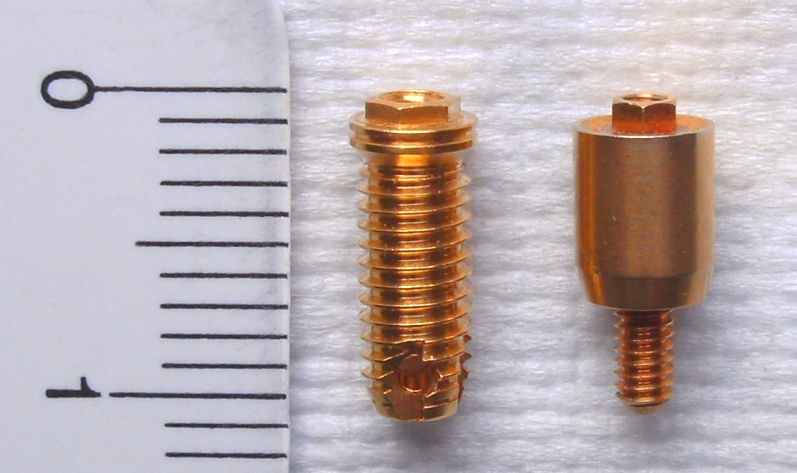 Typical parts of a dental implant: endosseus screw (implant or fixture) and abutment with fixing screw. Training parts, brass.